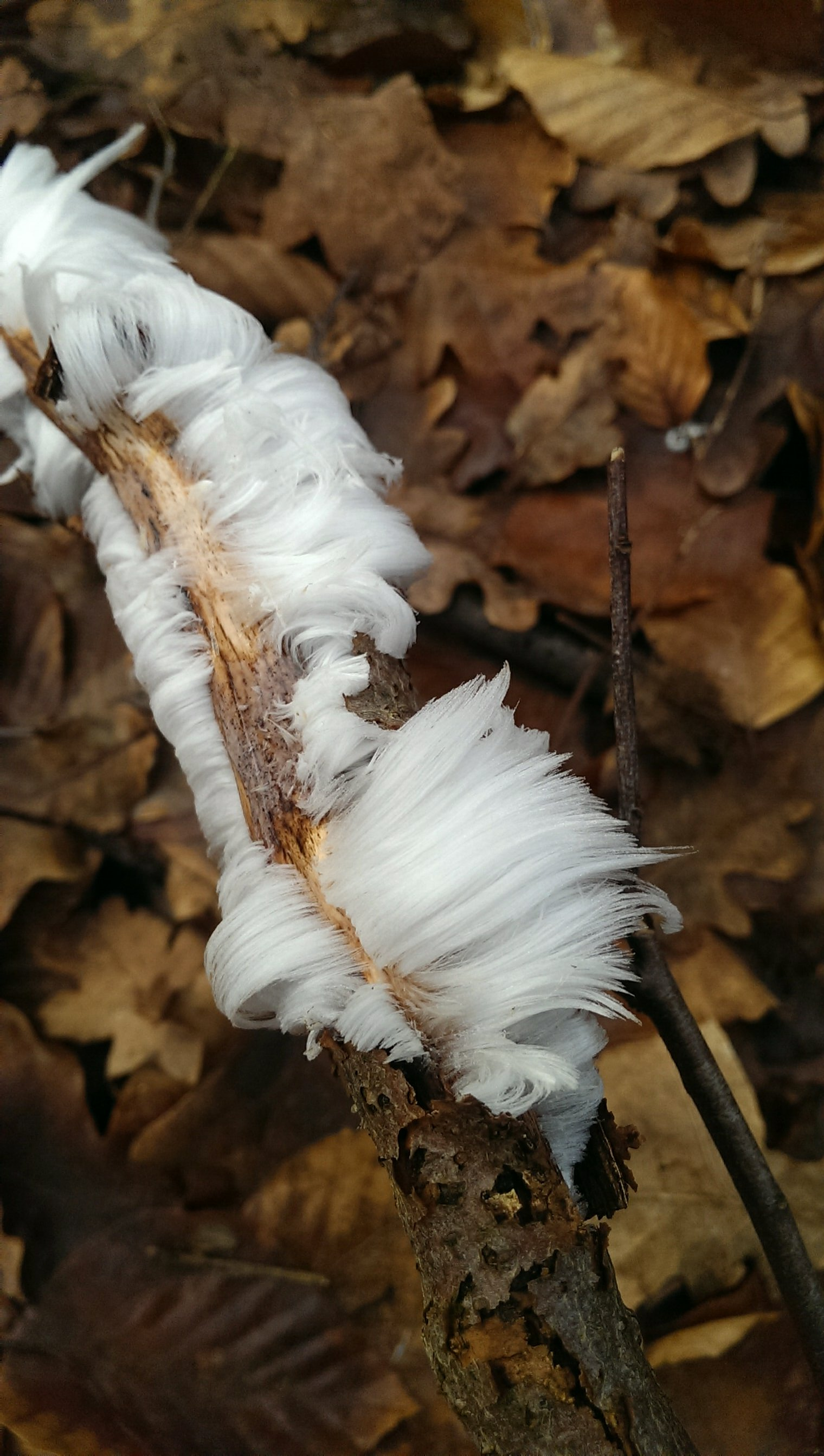 Frost flower on dead wood.